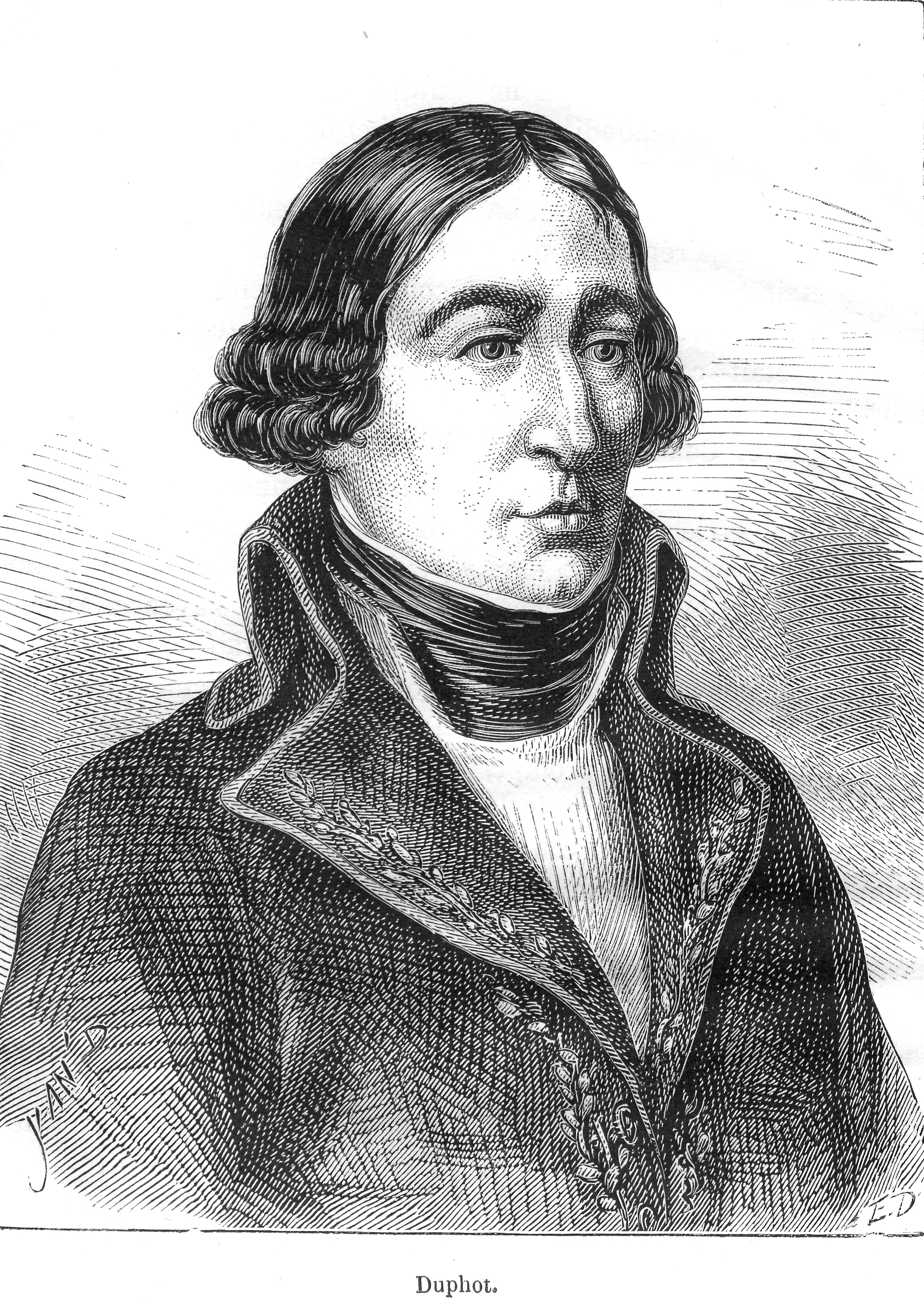 Léonard Mathurin Duphot, 1769-1797. French General.